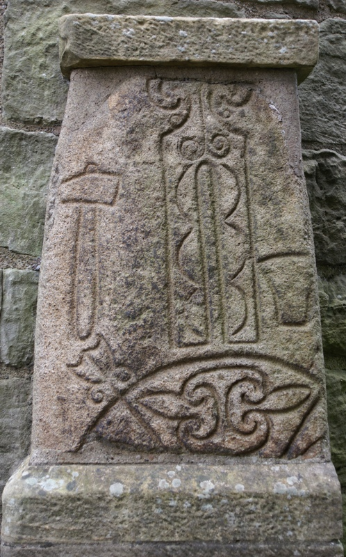 Abernethy Round Tower, Abernethy, Perth and Kinross, Scotland - pictish stone Abernethy 1